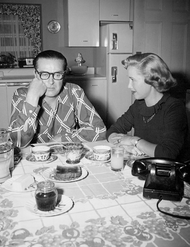 Photo from the comedy television series The Ray Milland Show (aka Meet Mr. McNutley). Milland played Professor Ray McNutley and Phyllis Avery played his wife, Peggy.